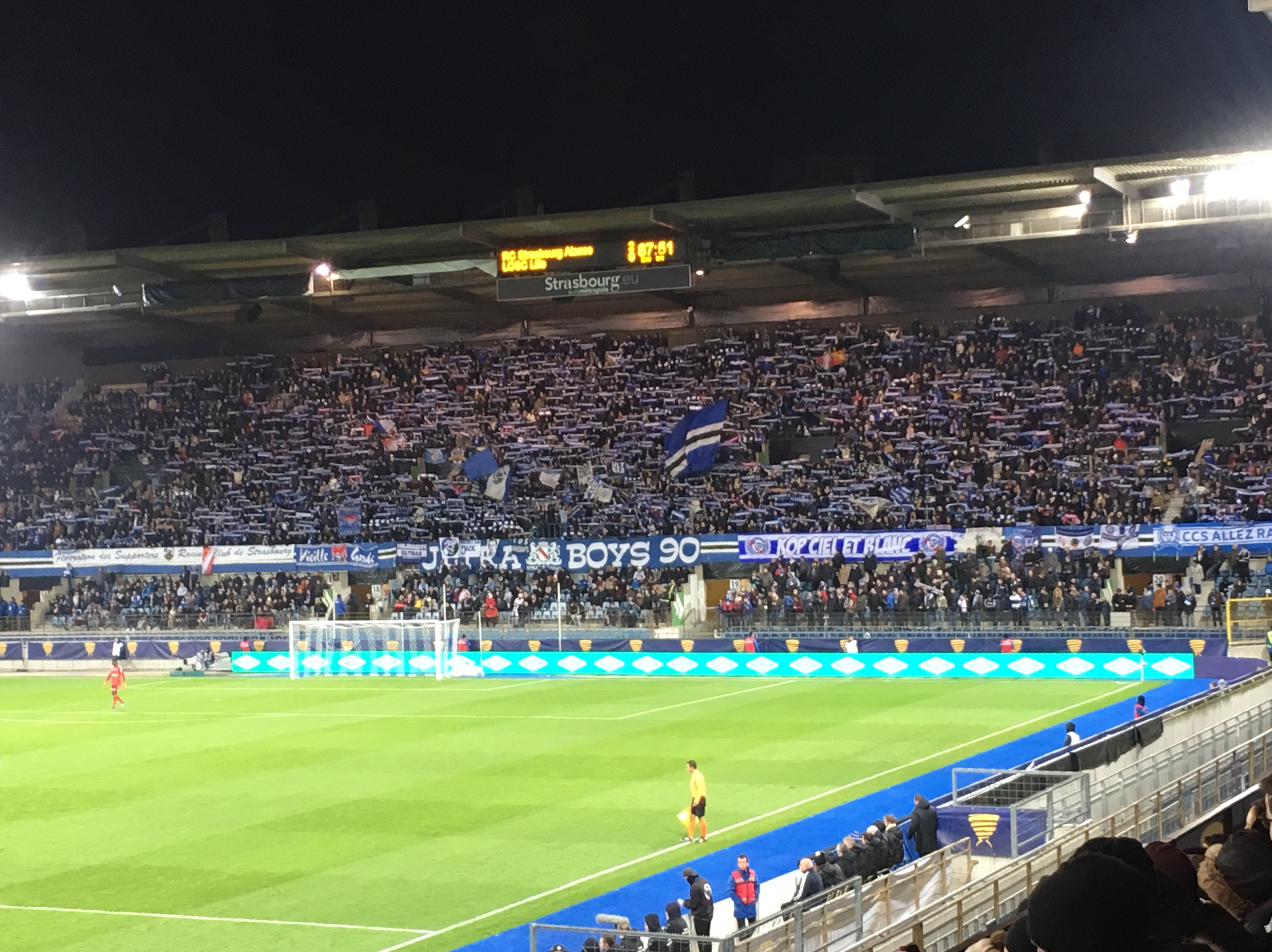 Supporters of Racing club Strasbourg Alsace, Ligue 1, at stade de la Meinau